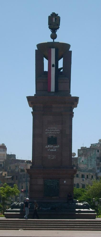 October 6th Monument-Shohadaa square-Alexandria